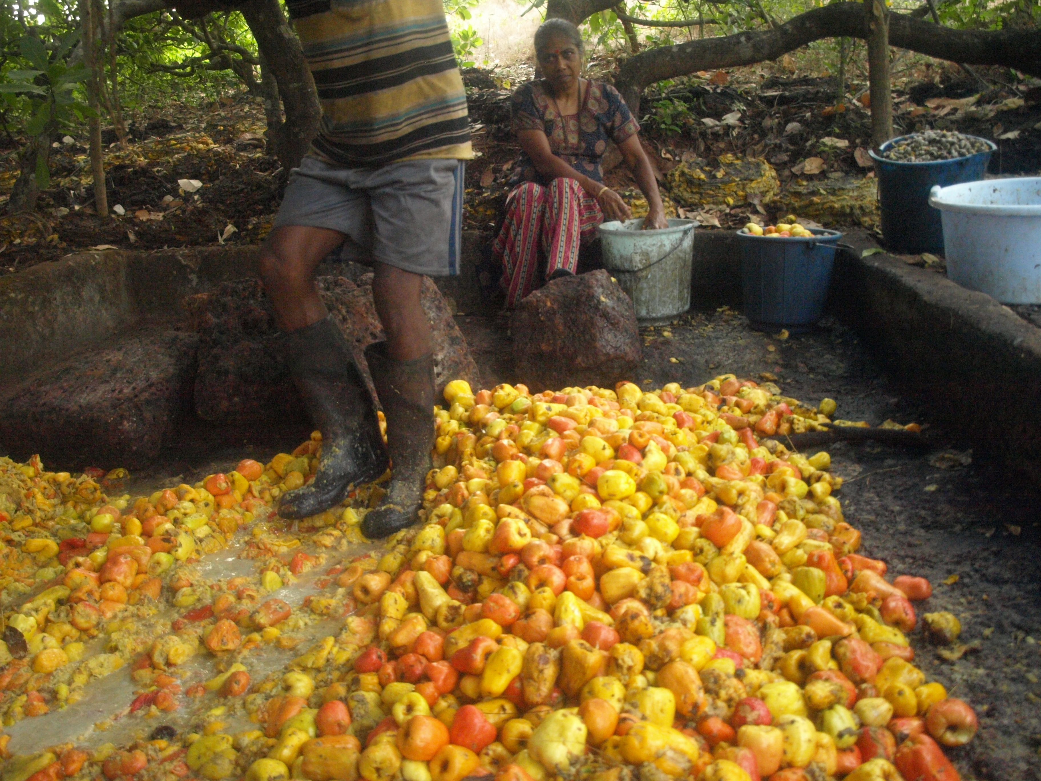 Photo by Frederick Noronha